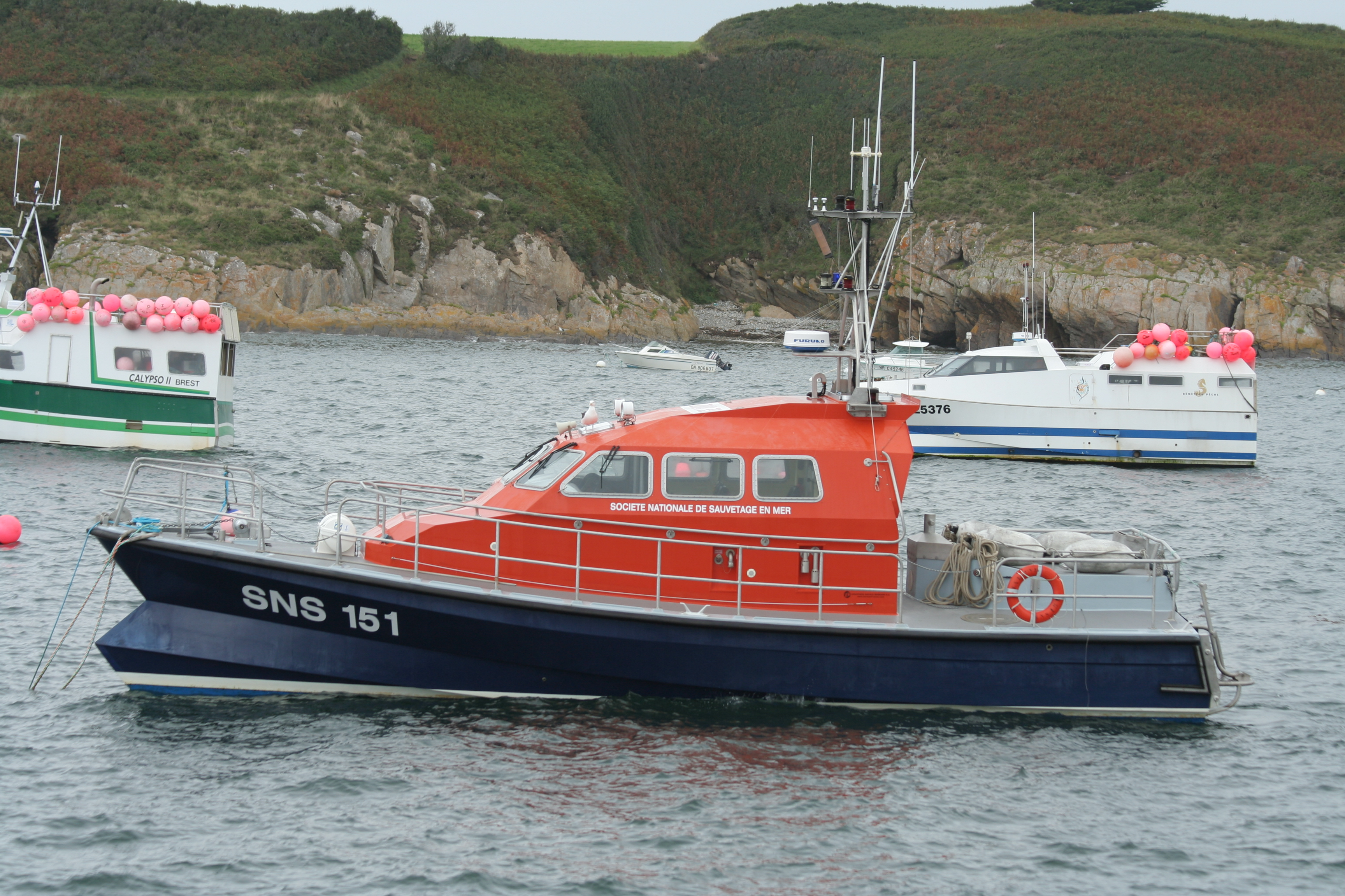 SNS 151 "La Louve" at her harbour of Le Conquet